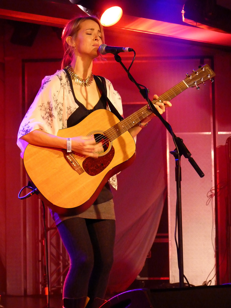 ATP Minehead, Nightmare Before Christmas 2009